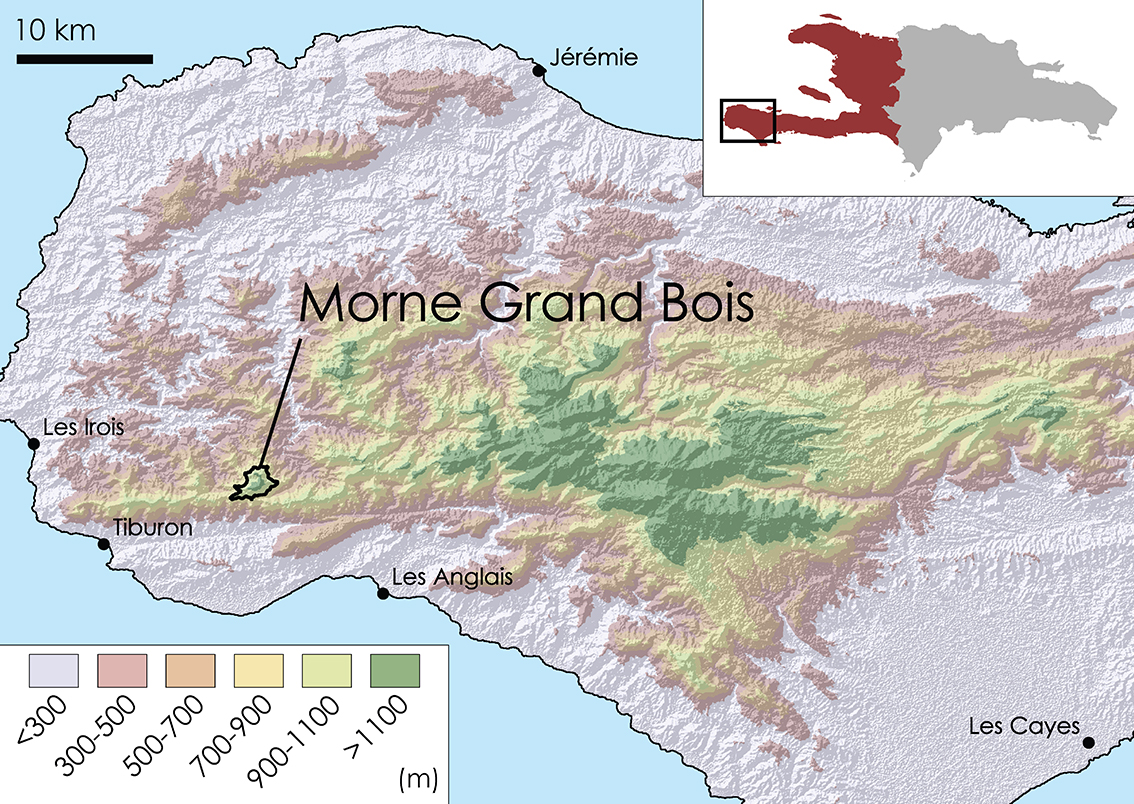 Grand Bois topographic map new legal boundaries